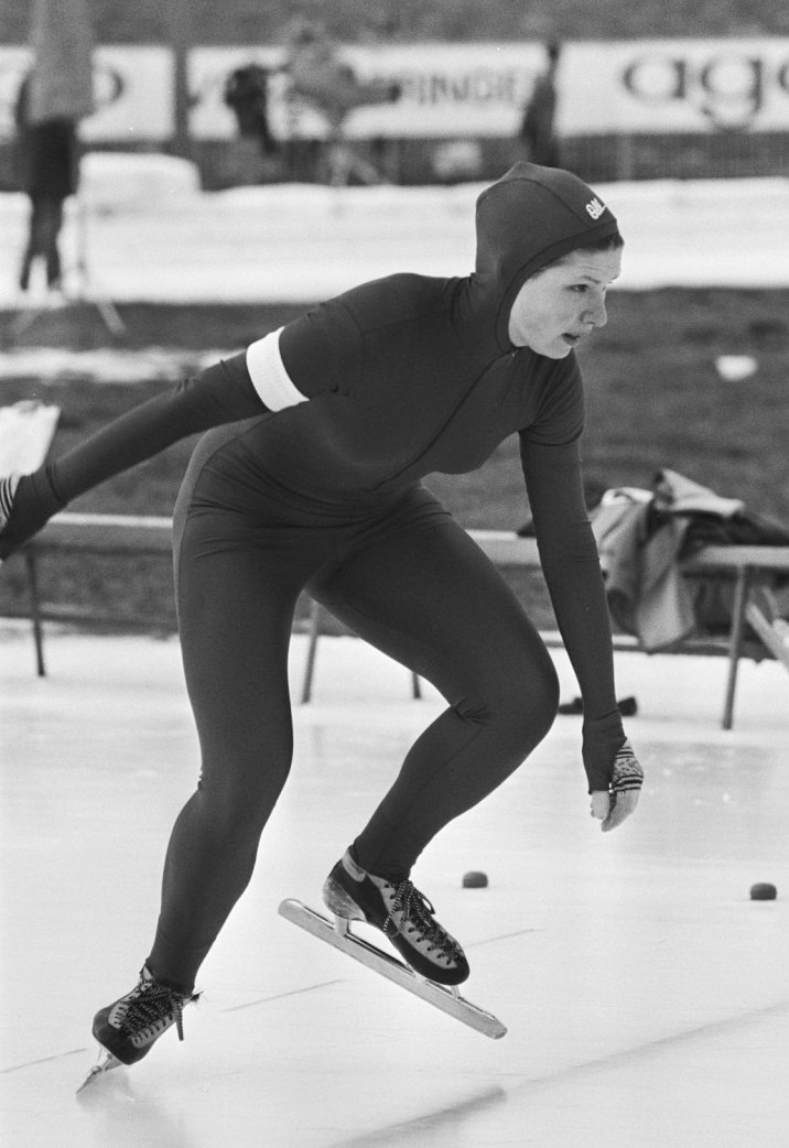 Wereldkampioenschappen schaatsen junioren allround in Assen. Natalya Kurova (Sovjet-Unie) in actie.